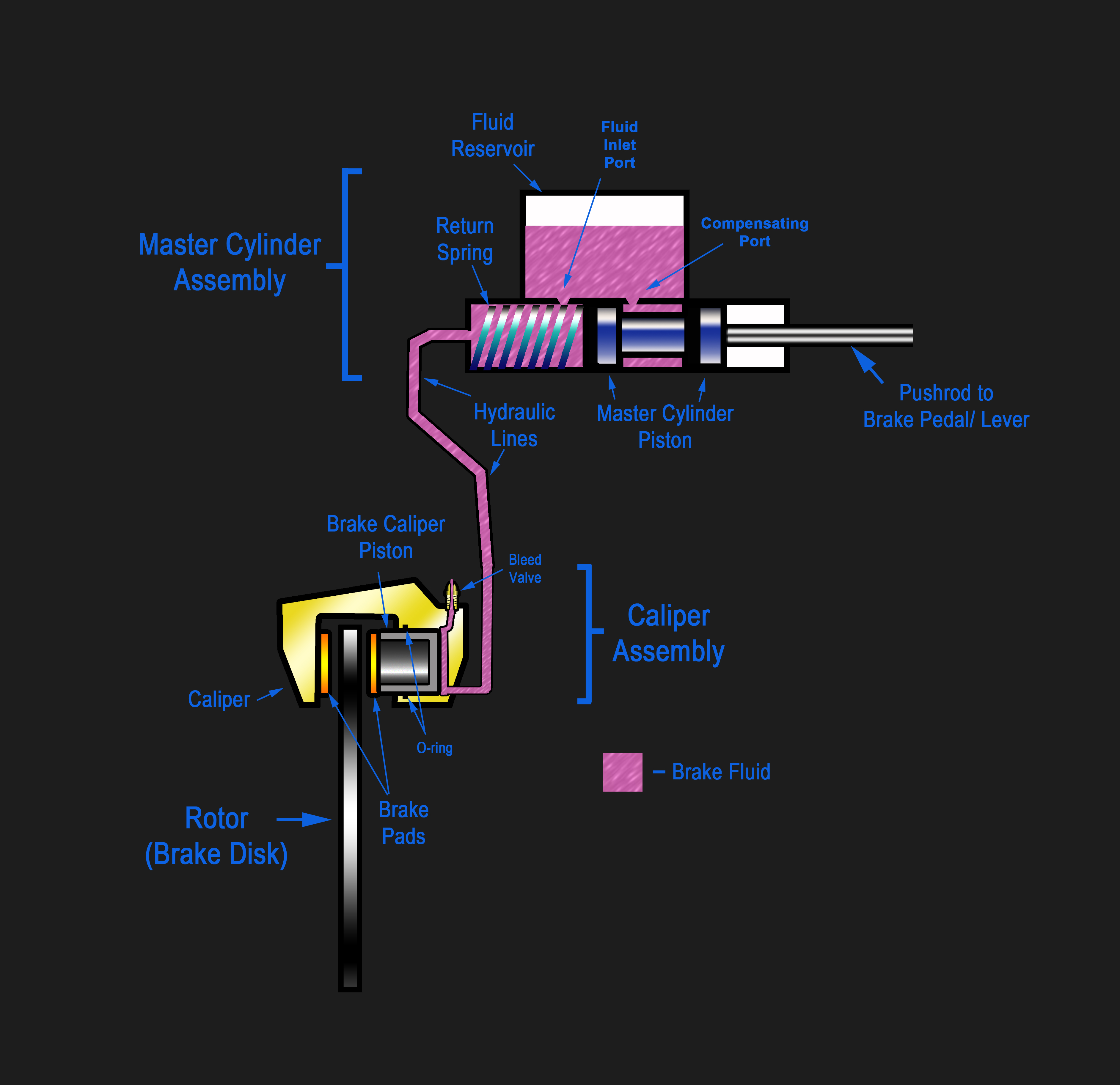 I generated this image personally, at much length, on August 10, 2009, using Photoshop CS4 Extended v. 11. I hereby release it to the public domain.